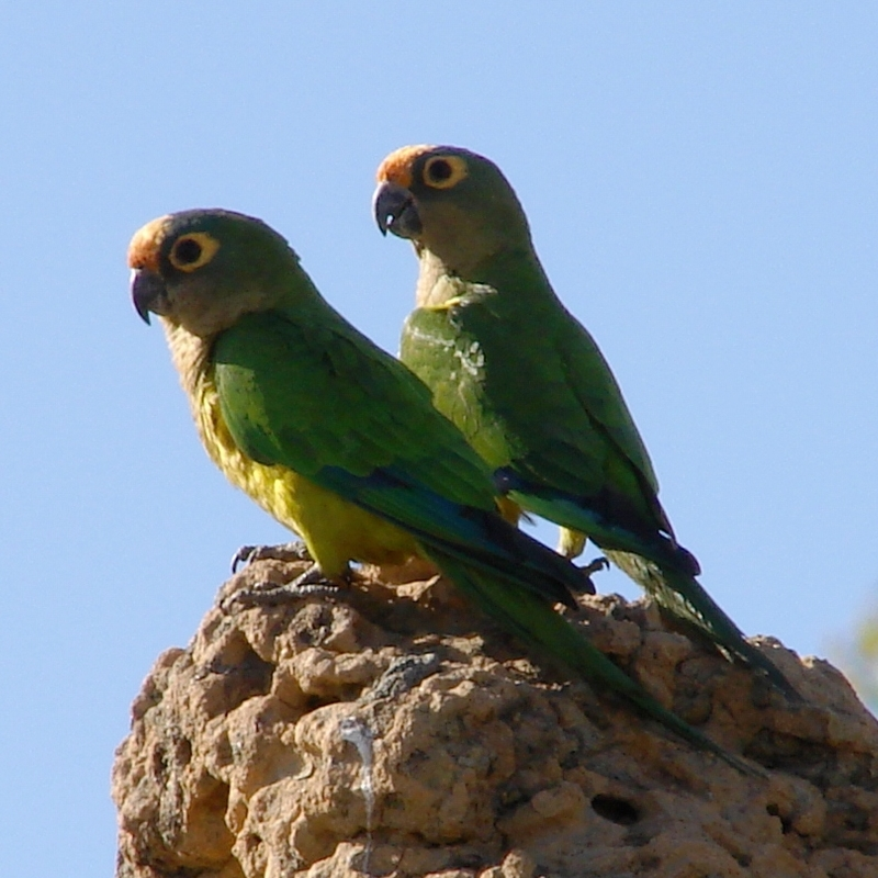 Peach-fronted Parakeet (Aratinga aurea) perching on a termite mound in Minas Gerais, Brazil.